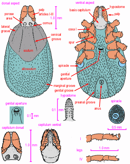 Generic female Ixodid tick anatomy.